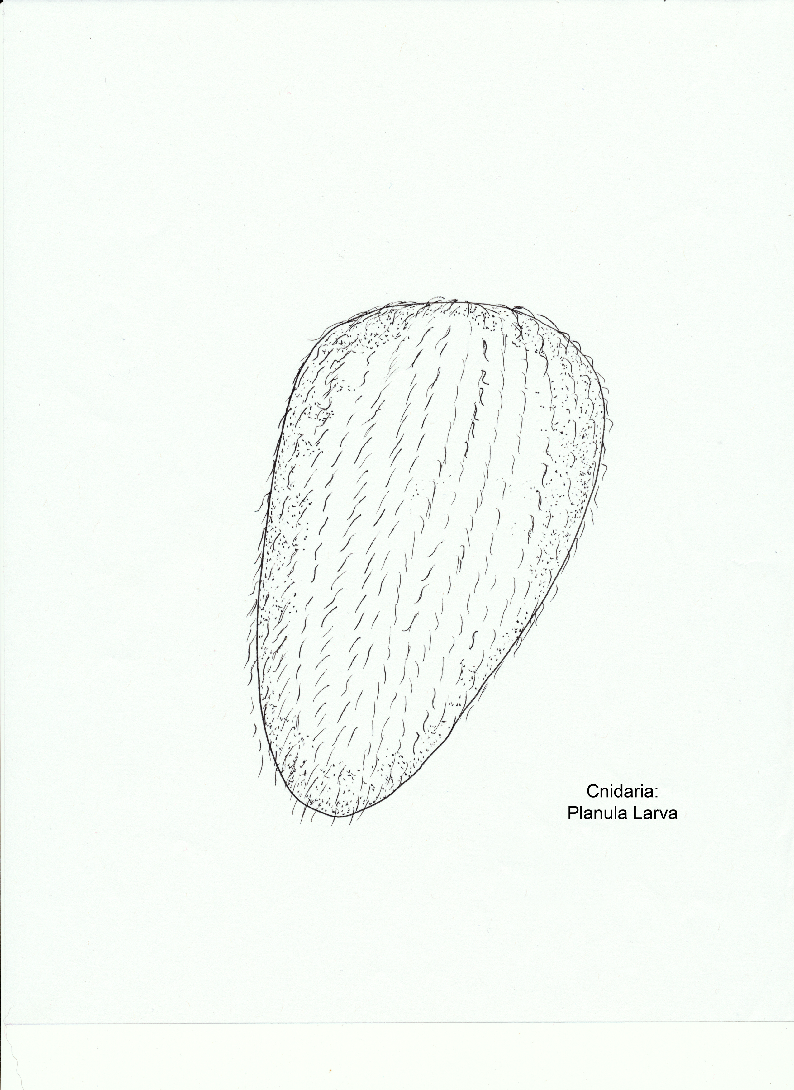 Pen and ink drawing of a planula larva of a cnidaria (generalized).